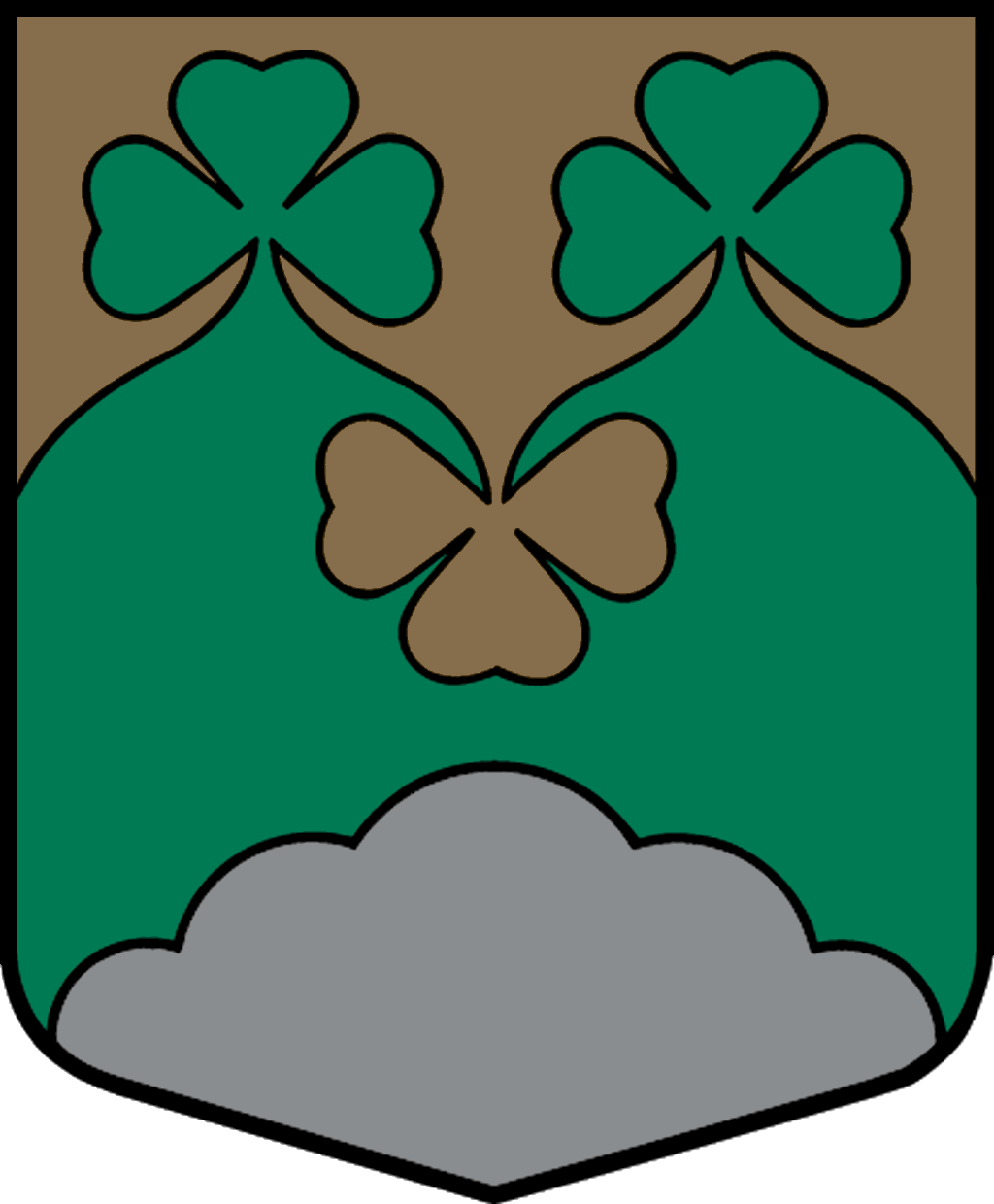 Coat of arms of Branti parish, Latvia.